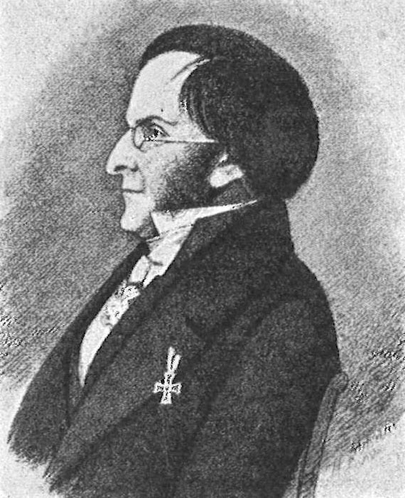 Nils Gustaf Nordenskiöld (1792-1866), Finnish mineralogist.